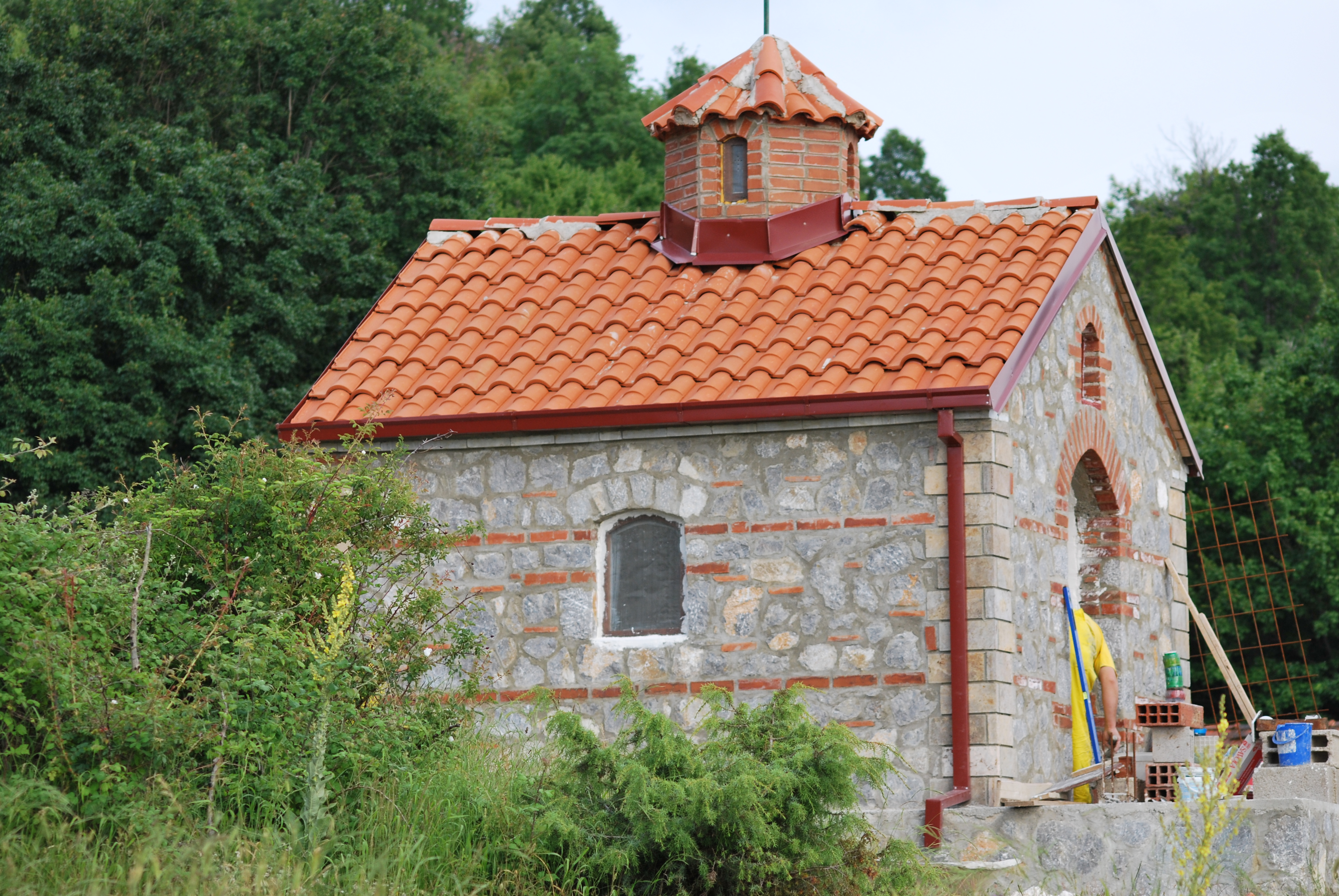 Sts. Peter and Paul Church in Velgošti, Macedonia